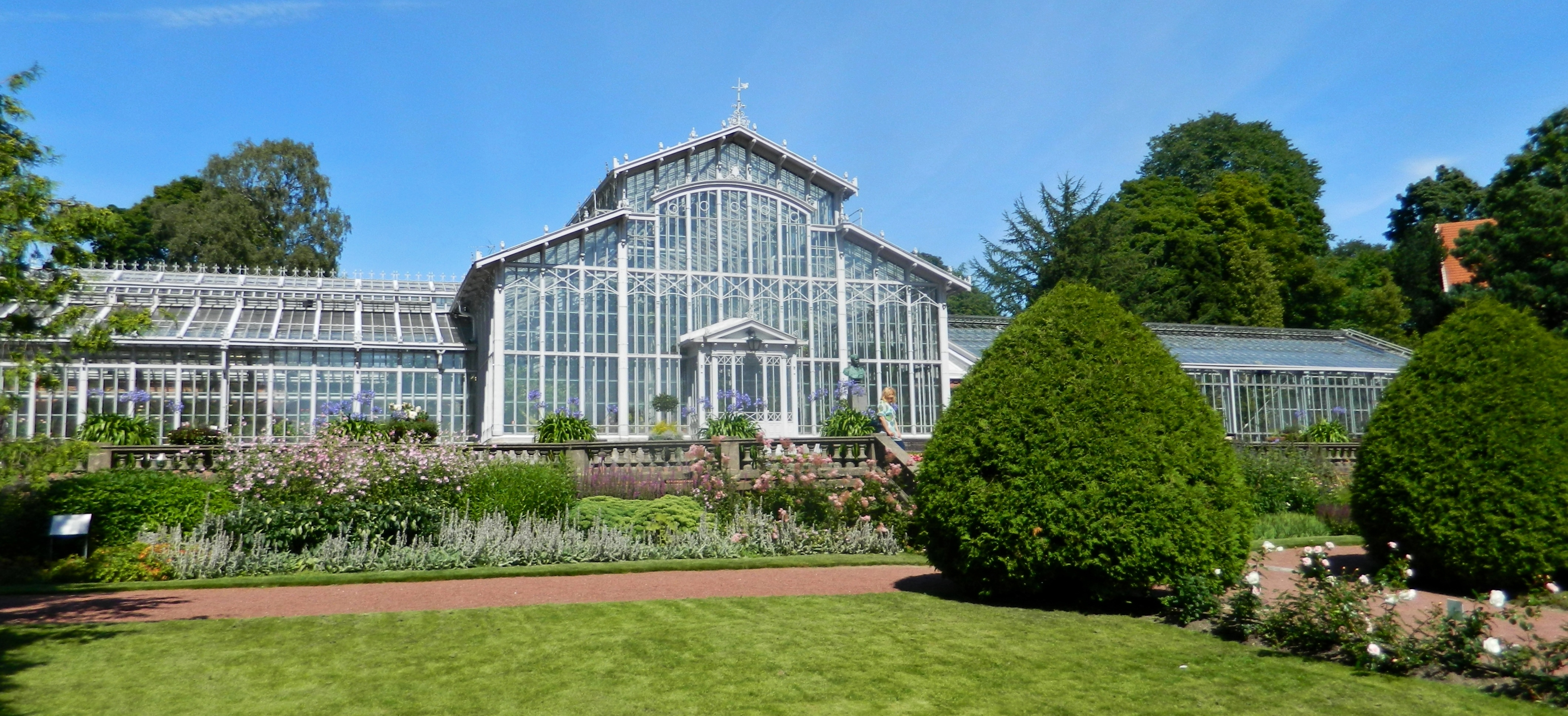 Helsinki City Winter Garden